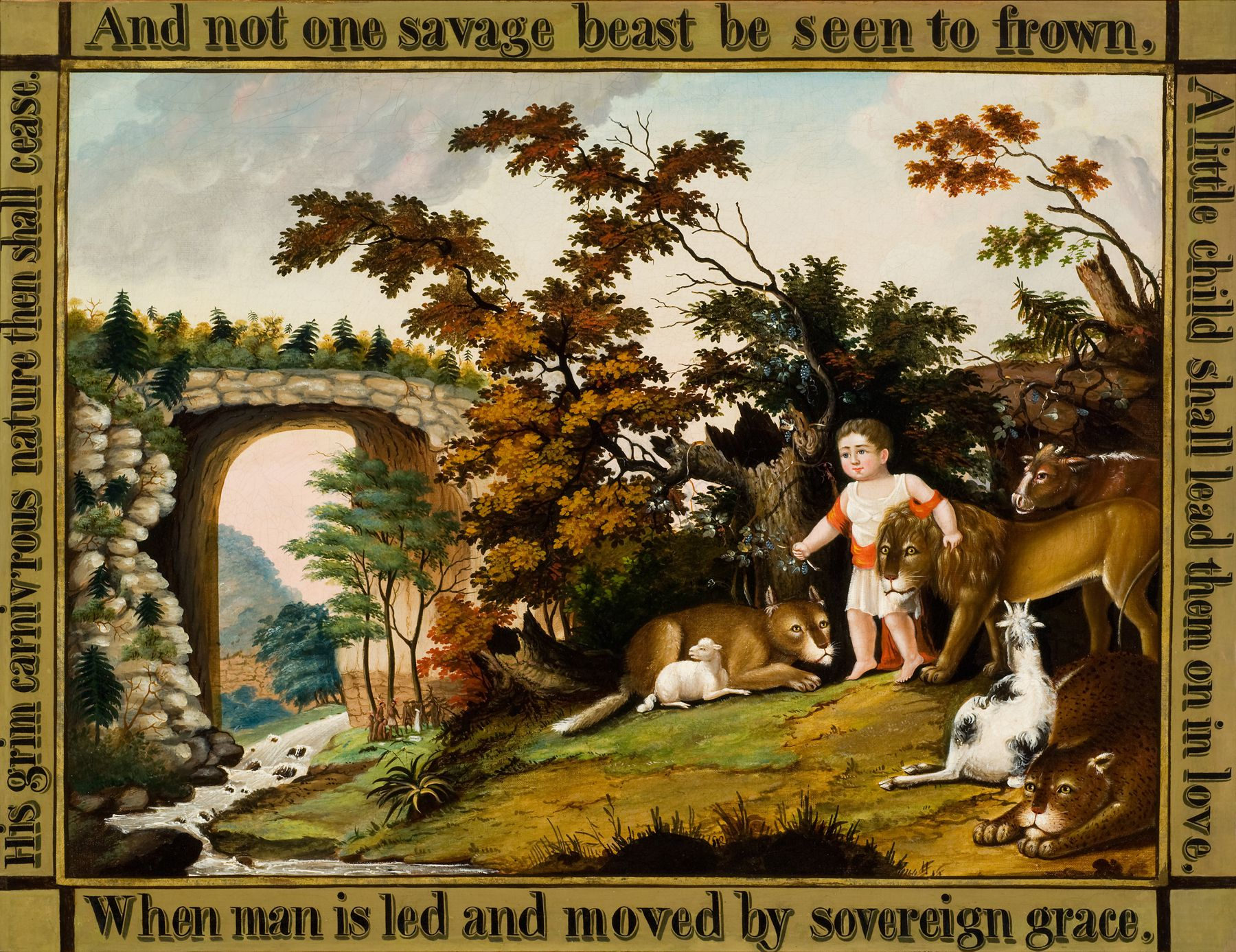 Peaceable Kingdom of the Branch — by American artist Edward Hicks. Oil on canvas. Courtesy of Reynolda House Museum of American Art, Winston-Salem, North Carolina.